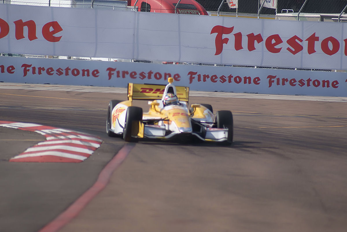 Ryan Hunter-Reay driving the Dallara DW12 for Andretti Autosport at the 2012 St. Petersburg Grand Prix. Round 1 of the 2012 IndyCar Series.